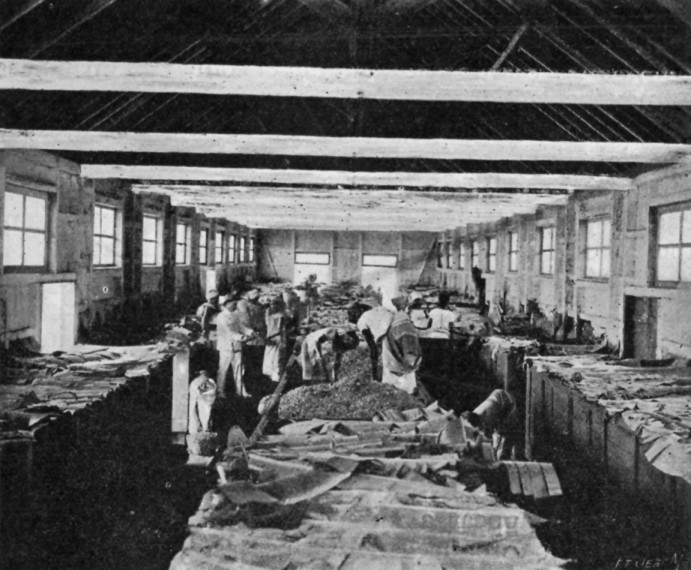 Cacao in the fermenting trucks, San Thomé. Cocoa and Chocolate, Their History from Plantation to Consumer, by Arthur W. Knapp, 1920